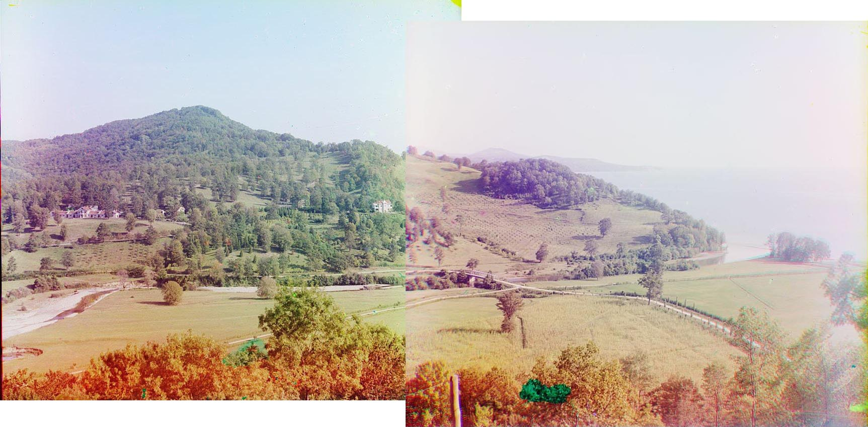 Dagomys, Sochi - panorama of the valley at the confluence of the rivers Dagomys at sea, made up of two old photos Prokudin-Gorsky taken between 1905 and 1915.